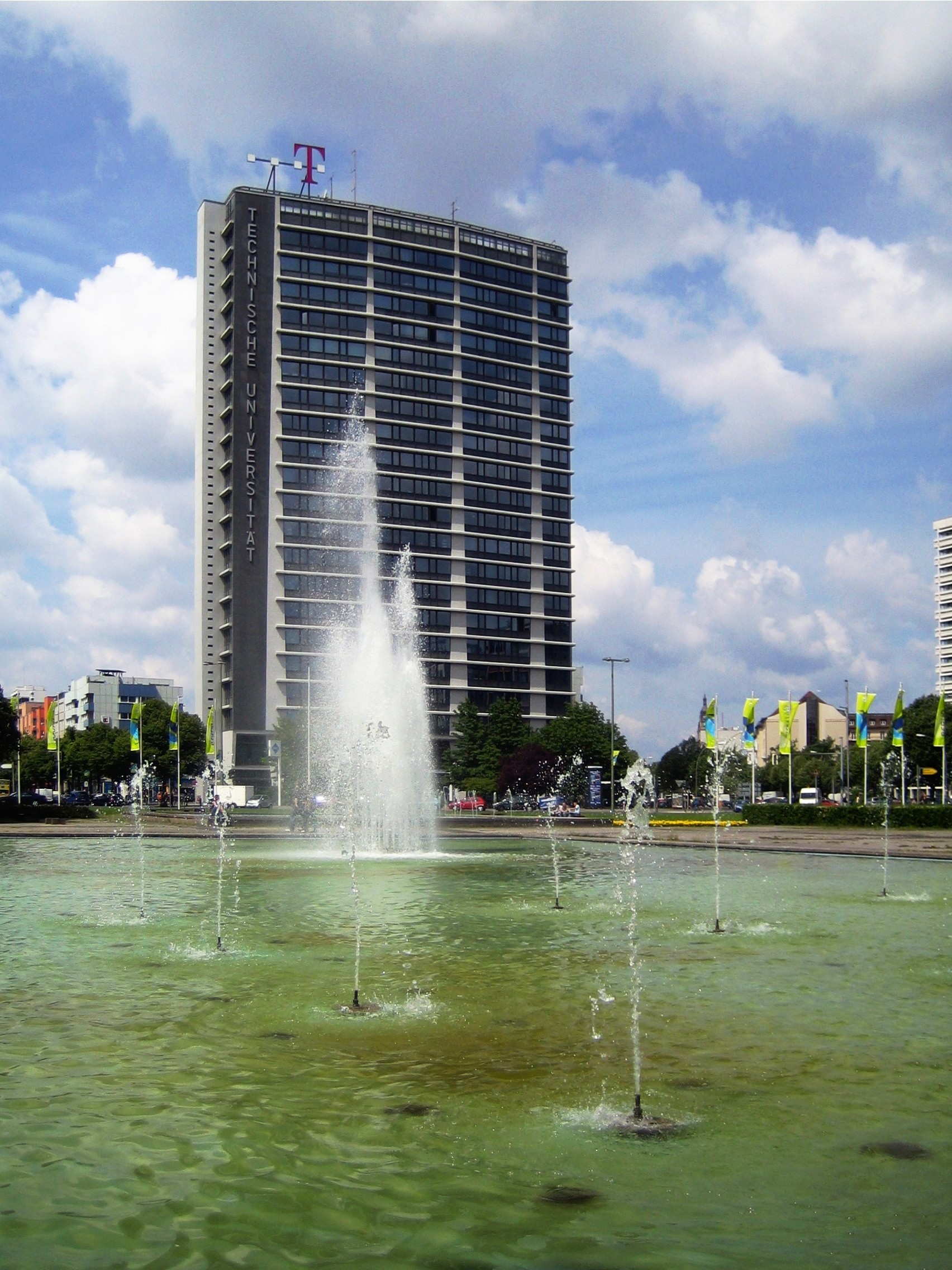 A group of fountains at Ernst-Reuter-Platz in Berlin-Charlottenburg (Germany). Built up in 1961.